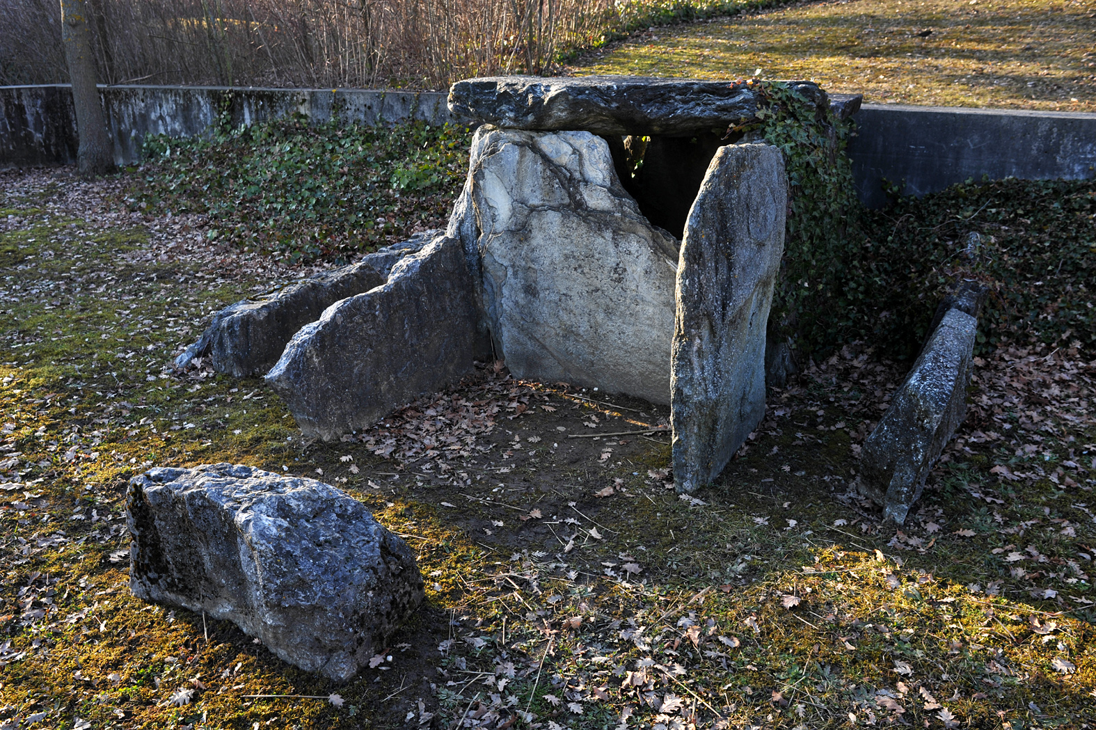 The dolmen of Auvernier at the Laténium in Hauterive; Neuchâtel, Switzerland. The five-meter long dolmen lay originally in a vineyard south west of Auvernier, near the lake. 1876​​, von Gross discovered the three-chamber grave. For many years it lay at the maintenance area of the archaeological service (556810/202273) near the discovery site until it was moved 2004 to its present location at the Laténium.